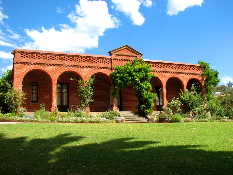 The Beaumont House — an eclectic 1851 Romanesque-Classical brick residence in Beaumont, Adelaide, South Australia. Now a Historic house museum in Australia.